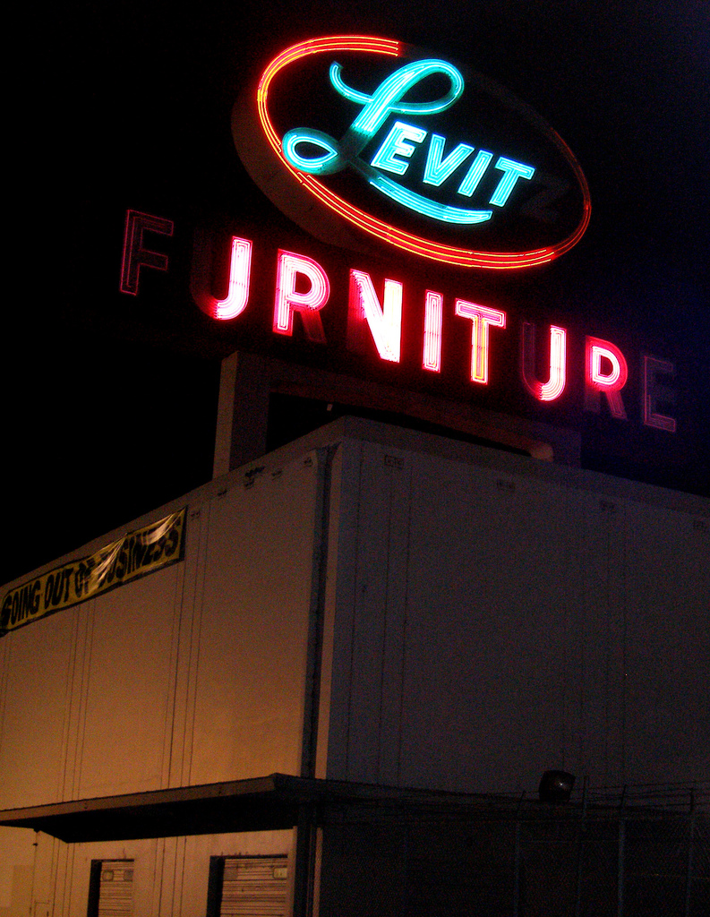 Levitz Furniture store closing in December, 2007.